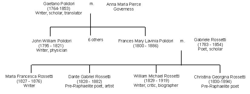 Family tree showing relationships between author John Polidori and the families of the Rossetti Pre-Raphaelite Brotherhood.